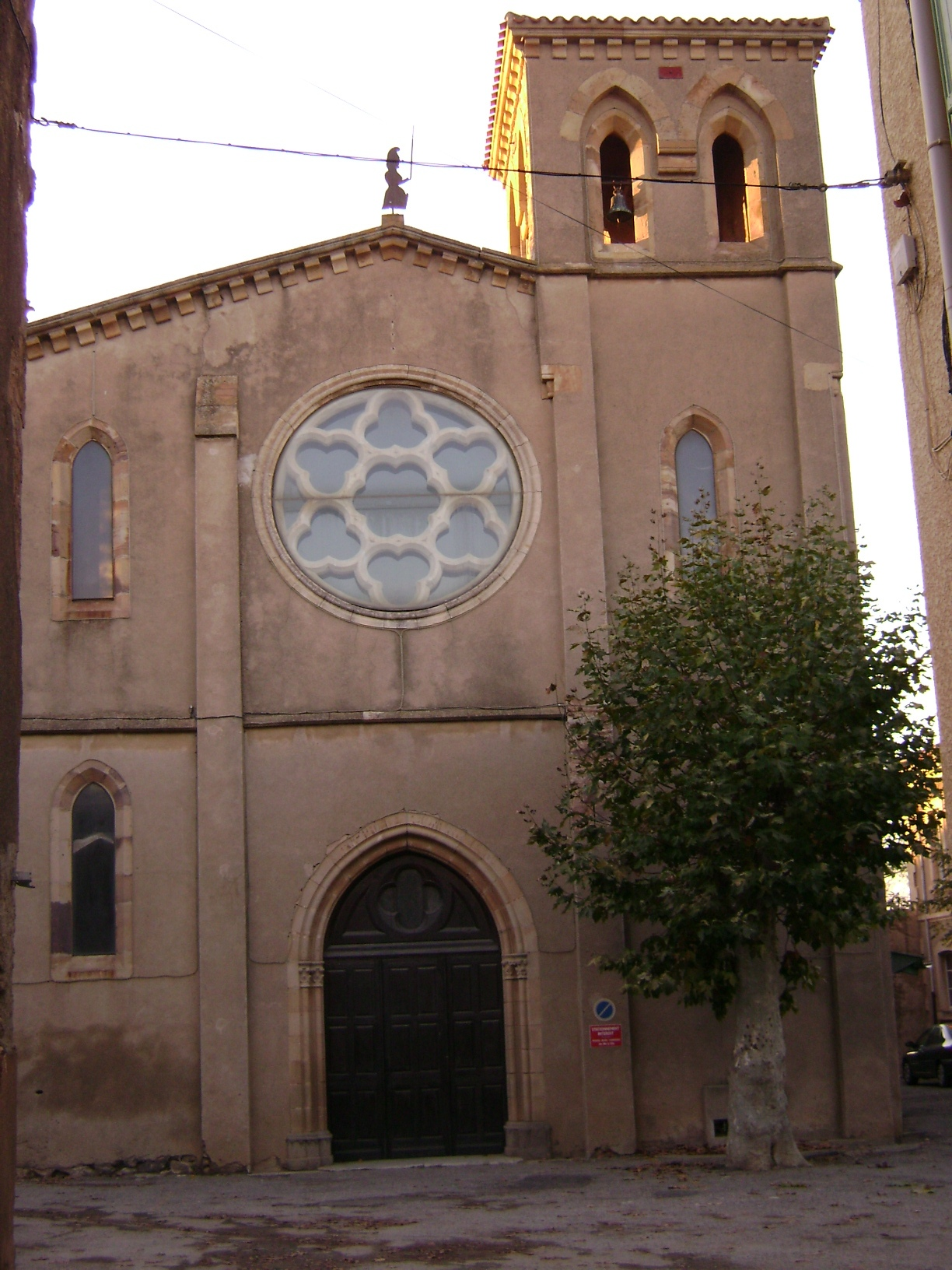 Sainte Eulalie church of Thézan-des-Corbières, Aude, France